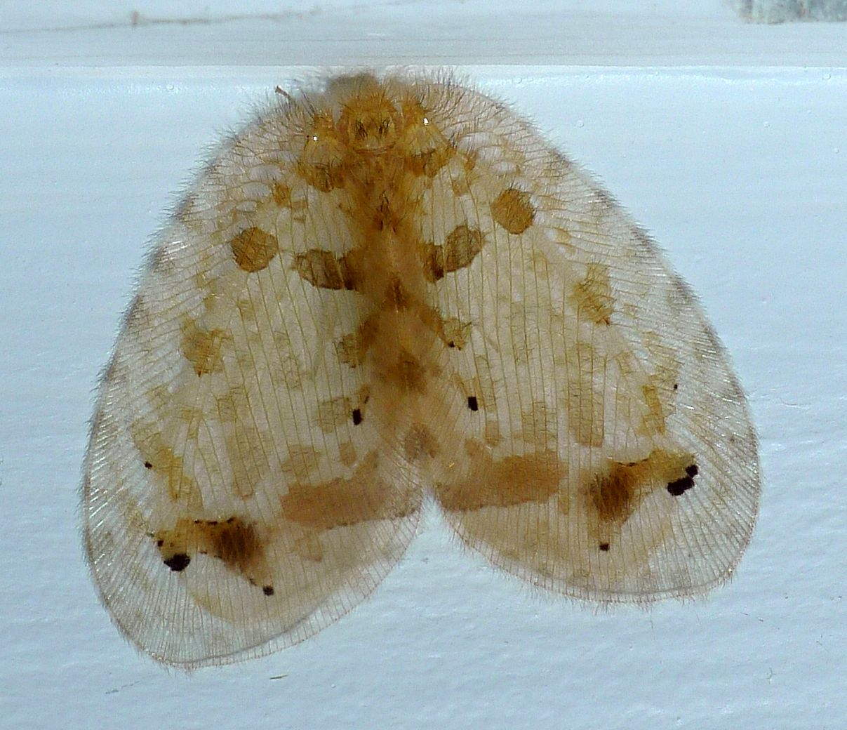 Silky Lacewing, Psychopsis insolens (Neuroptera: Psychopsidae). Como NSW Australia, January 2012.